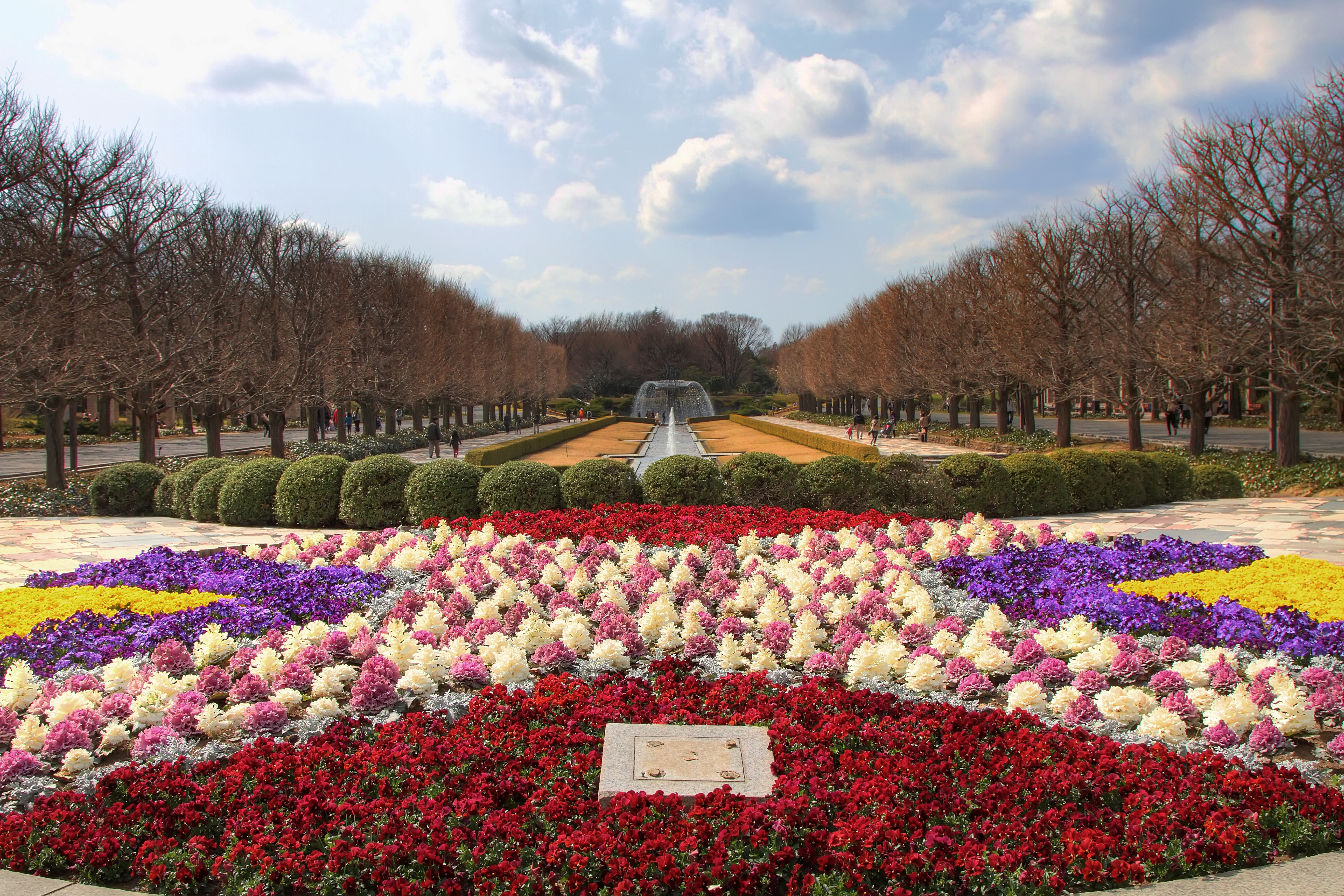 The entrance to this park is pretty amazing even though most of the trees are still dead. I can imagine how lovely this will be during spring time